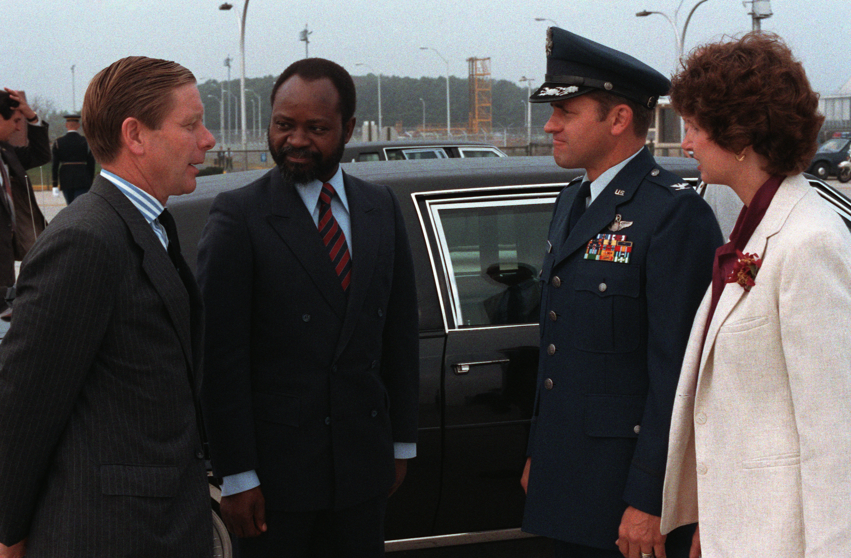 President of Mozambique Samora Moises Machel speaks with the state department officials and a colonel before departing the United States